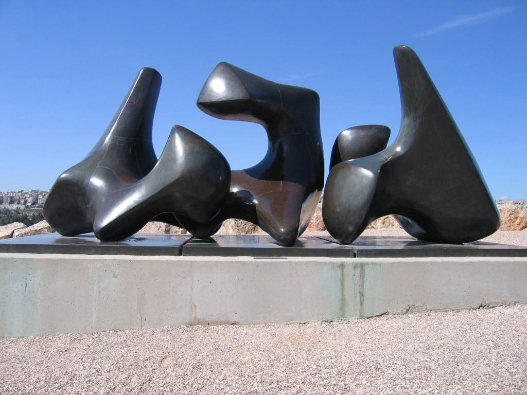 Three Piece Sculpture: Vertebrae by Henry Moore at the Israel Museum, Jerusalem